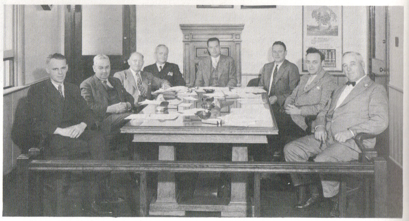 Photo of Mimico Town Council in 1943, led by Mayor Amos Waites, in the Mimico Town Hall on Royal York Rd across from Drummond Street.